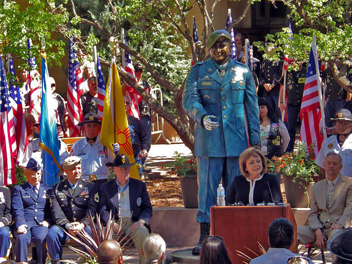 New Mexico Gov. Susana Martinez at Medal of Honor winner Leroy Petry statue unveiling, Santa Fe New Mexico, USA, June 24, 2013